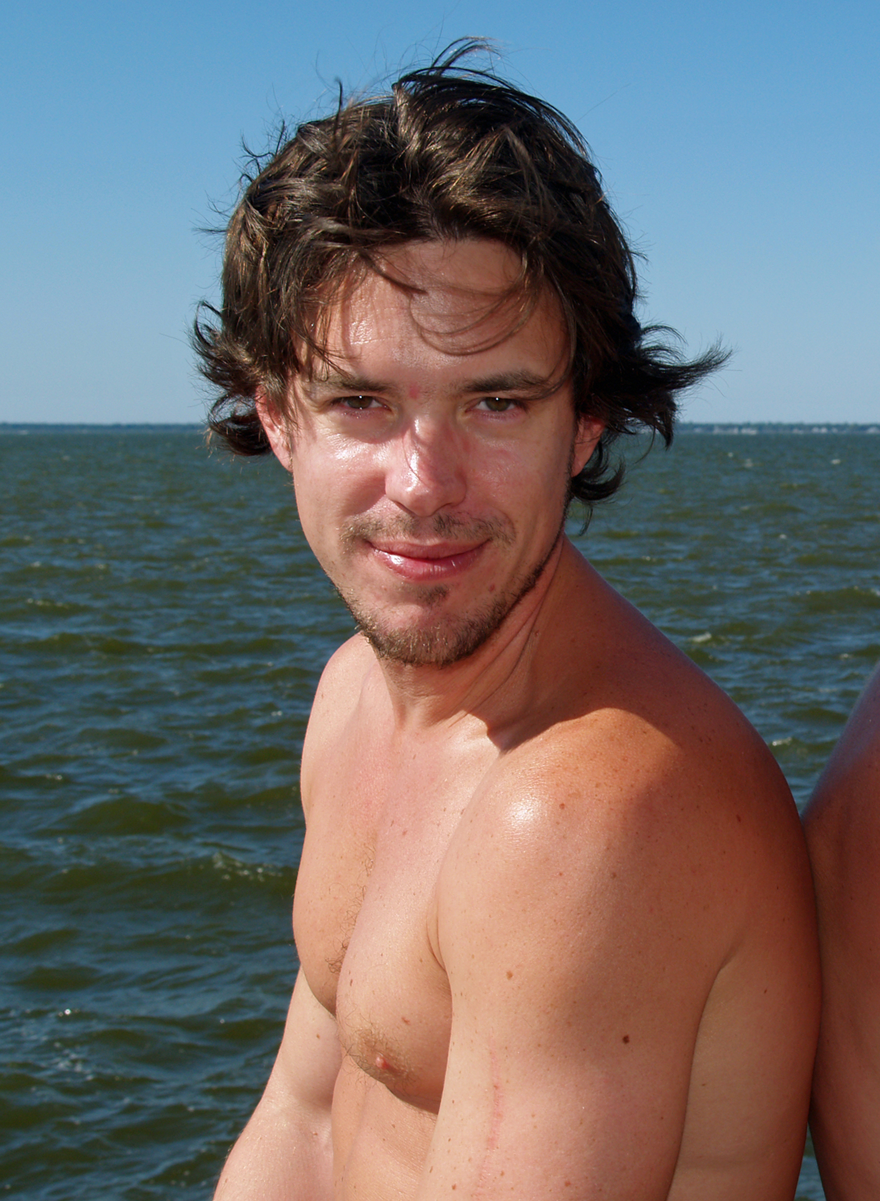 Paul Dawson in August of 2008 on Fire Island at the home of Michael Lucas